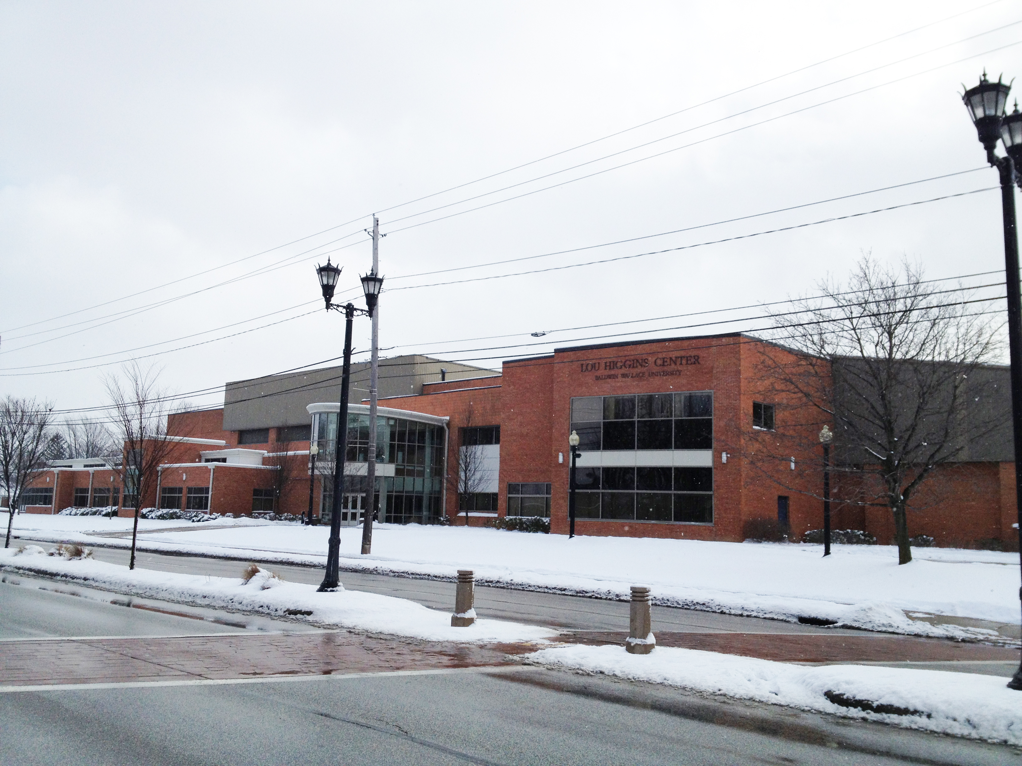 Lou higgens Rec Center on Baldwin Wallace University Campus